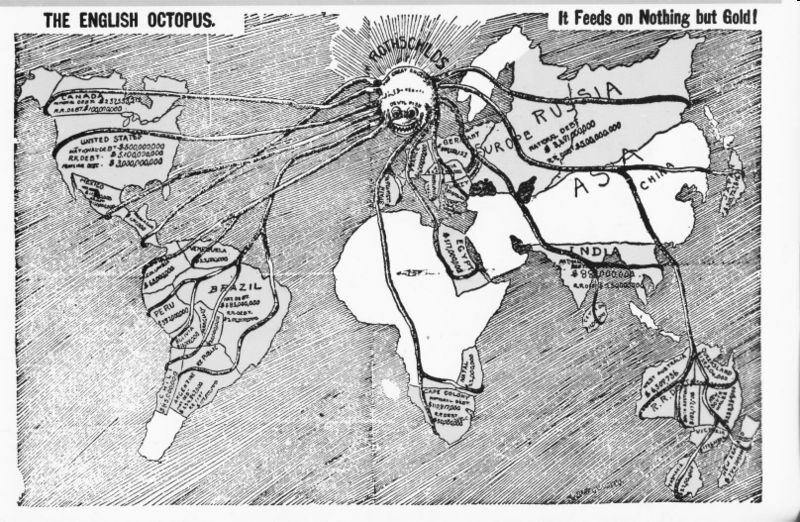 "English Octopus" American Populist cartoon on Rothschild control of world gold, 1894, from "Coin's Financial School" (1894) p 124 Other information book written by W.H. Harvey